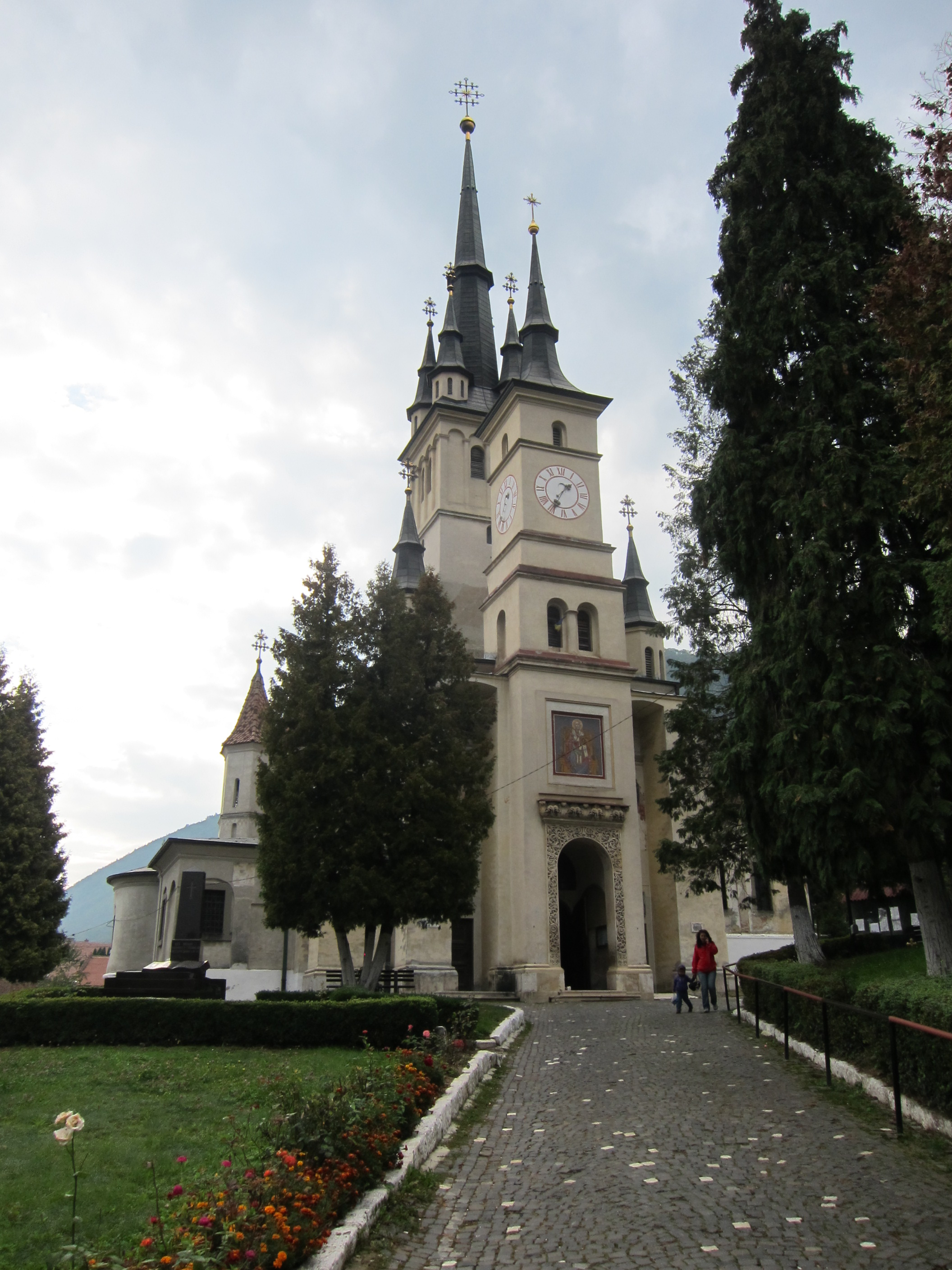 Saint Nicholas Church, 15th century